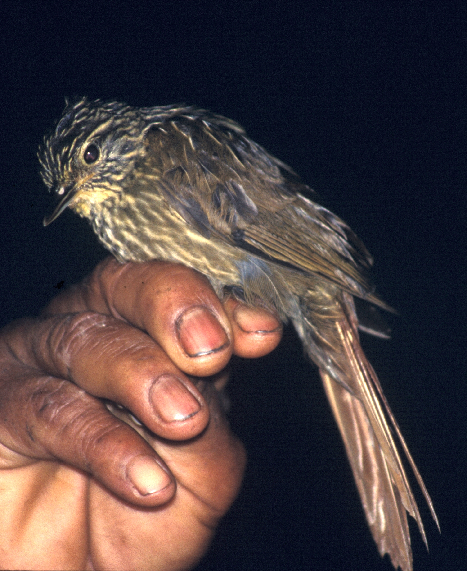 Lineated Foliage-gleaner (Syndactyla subalaris) from ecuador